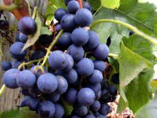 The "Mondeuse" vine that produces the famous Savoy's wine named "Mondeuse of Arbin", made in ARBIN village, Savoy (France)